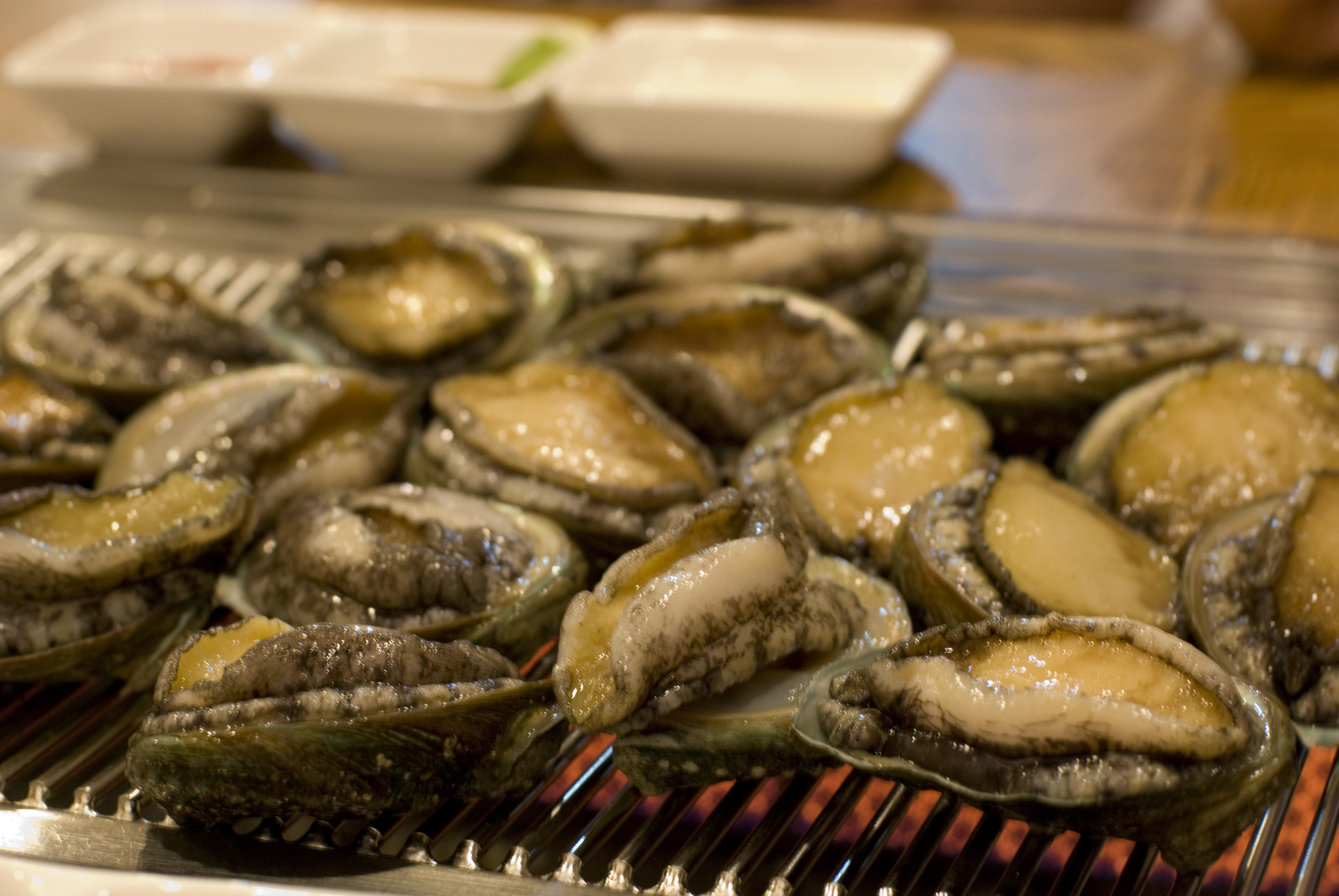 Jeonbok gui, Korean grilled abalone dish